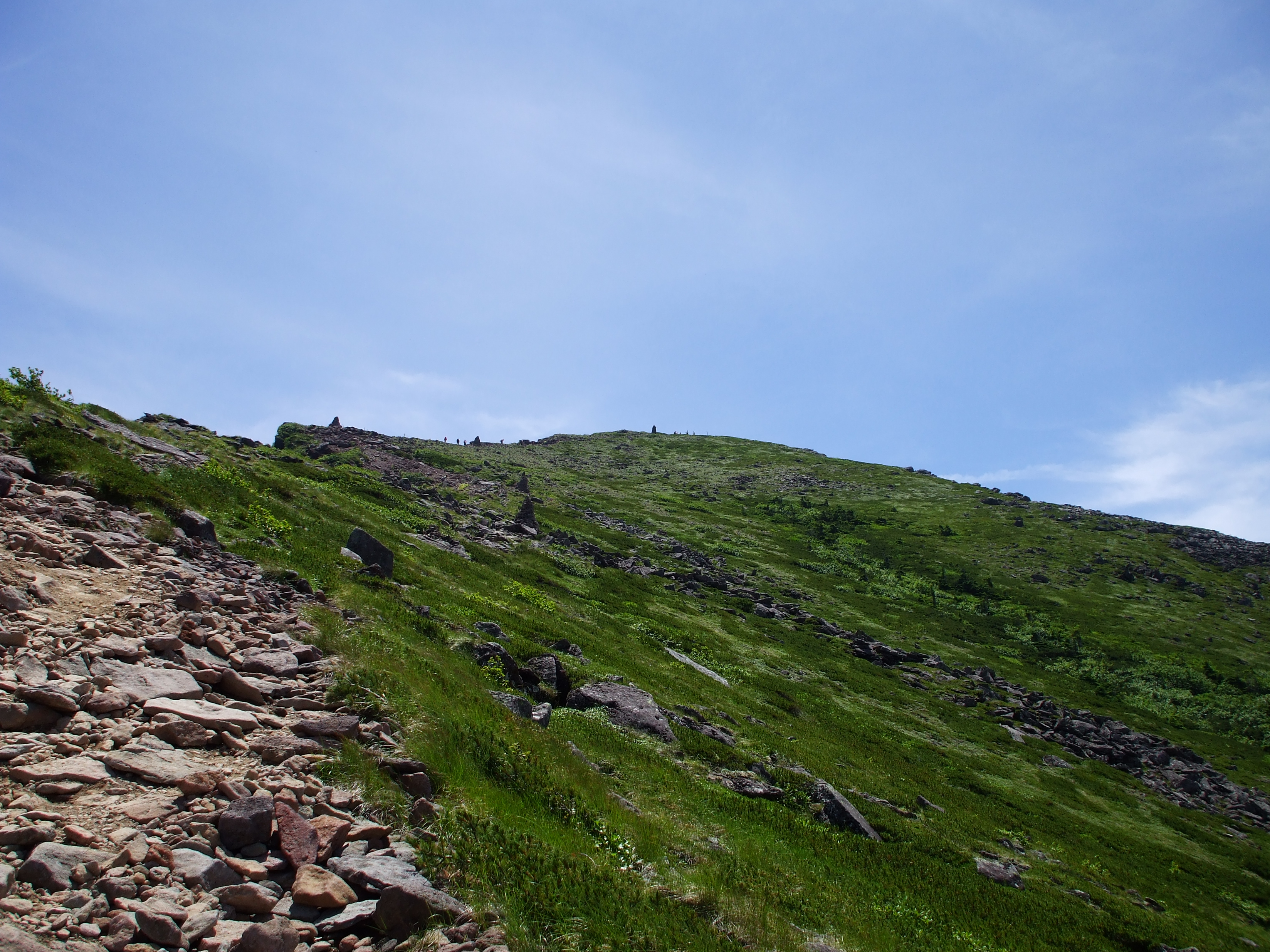 Mount Iōdake from Natsuzawa Pass, of Yatsugatake Mountains, Honshu, Japan.